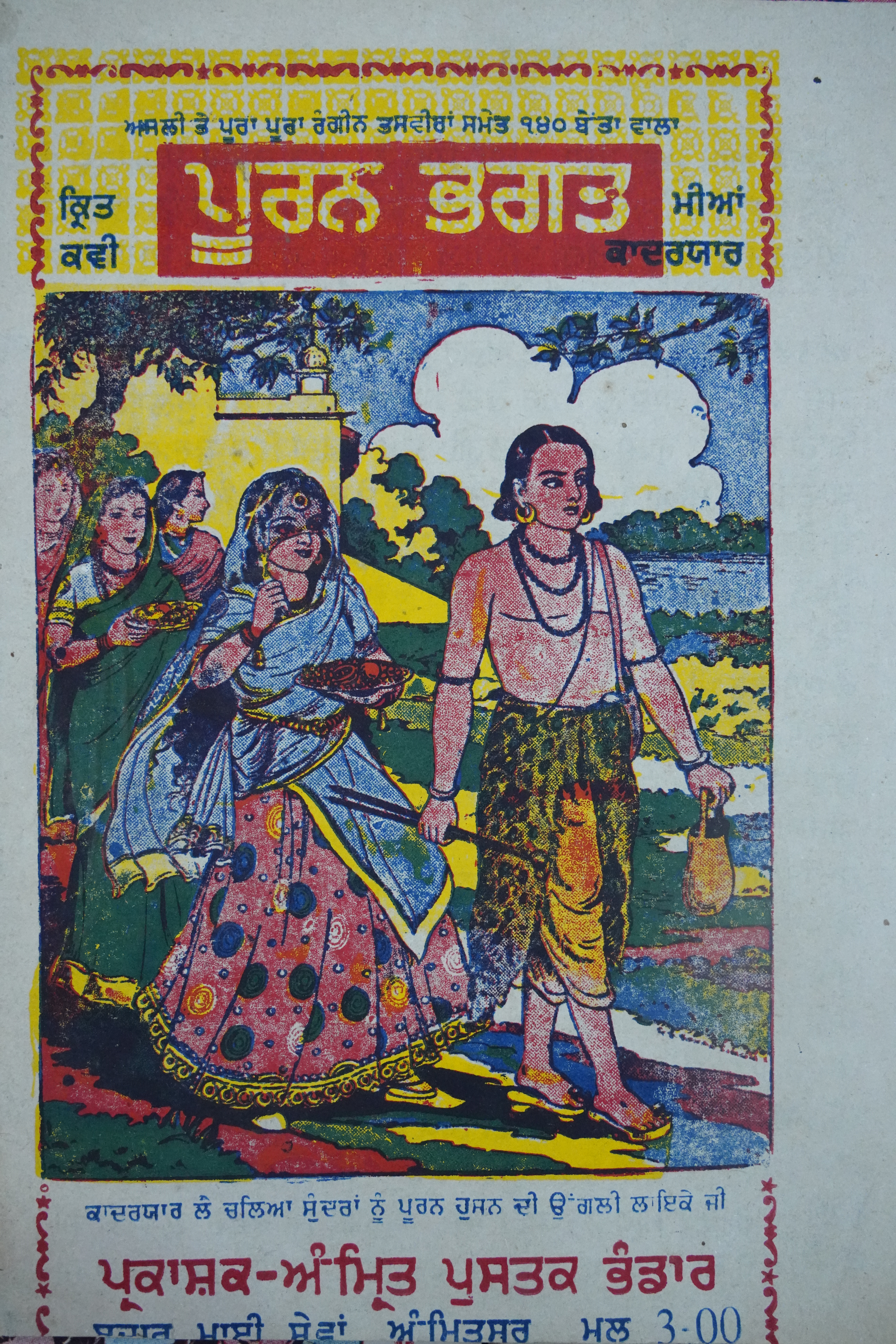 Punjabi Qissa - Puran Bhagat (Cover)